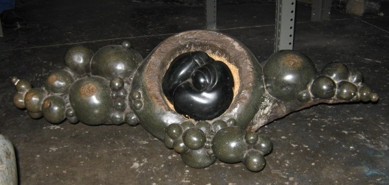 PC - 8400 - 0102 Genesis Tapfuma Gutsa 35x36x91cm